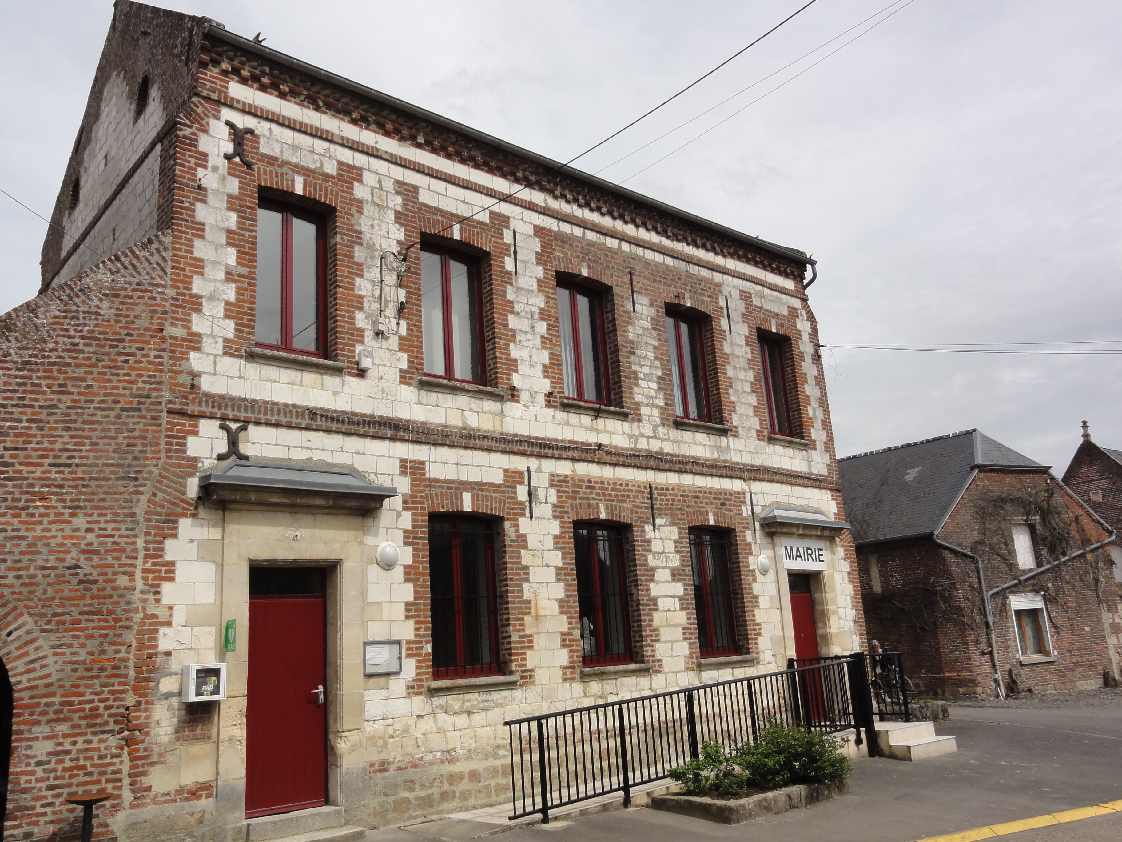 Nouvion-et-Catillon (Aisne) mairie